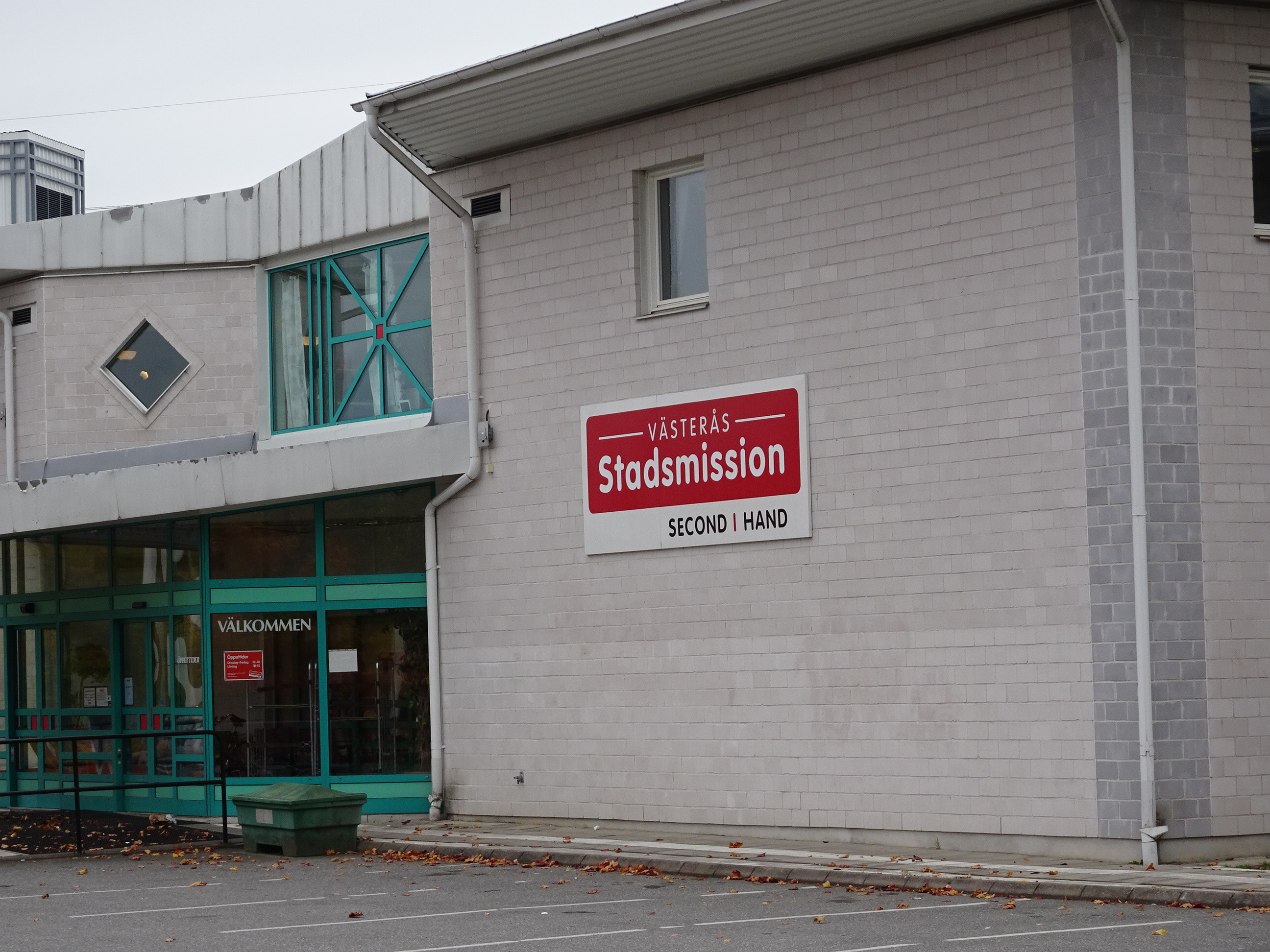 The City Mission of Västerås second hand shop. Sweden.